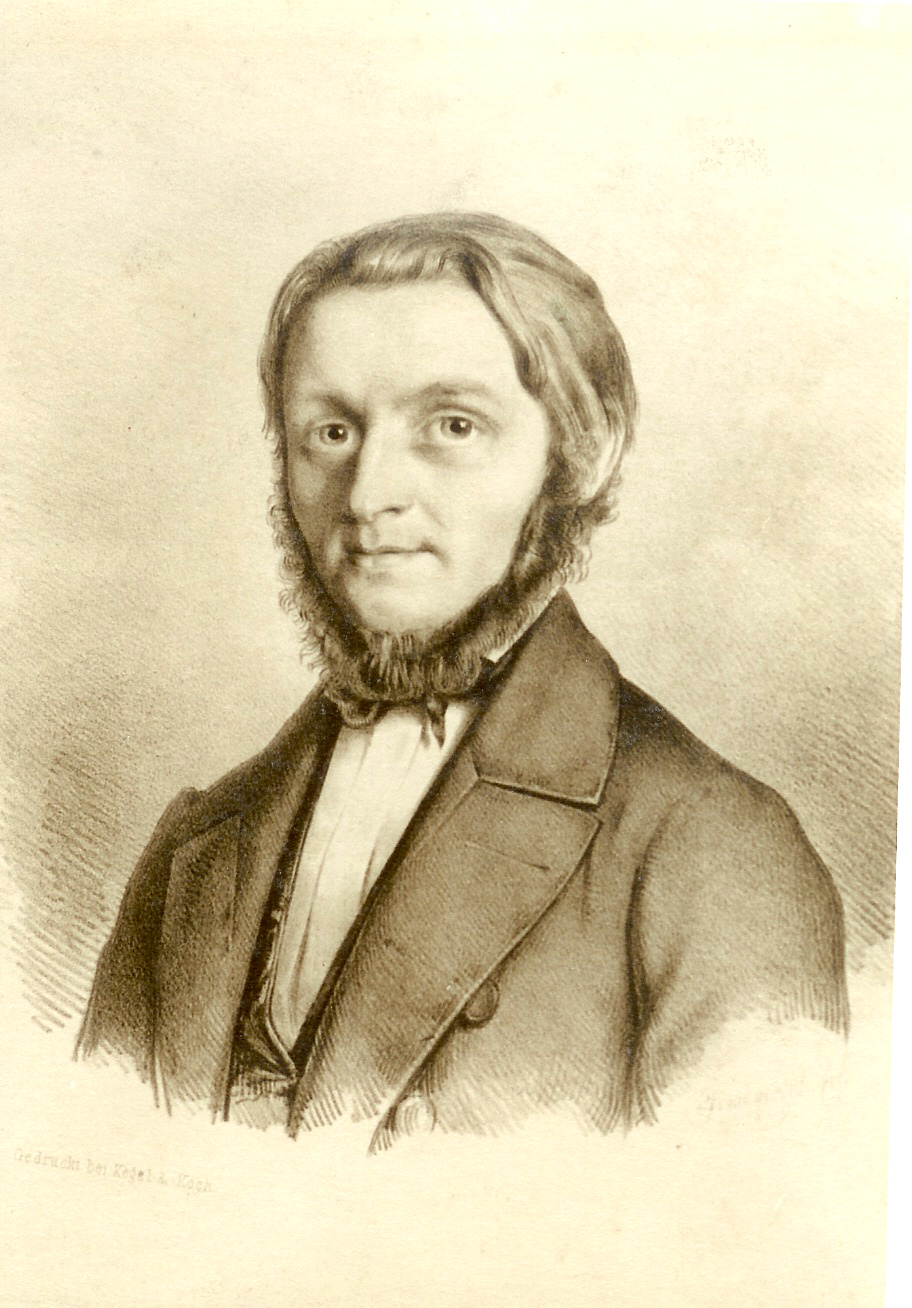 Family portrait of Karl Theodor Bayrhoffer, owned and submitted by William Alexander Greene, subject's great great great great grandson.